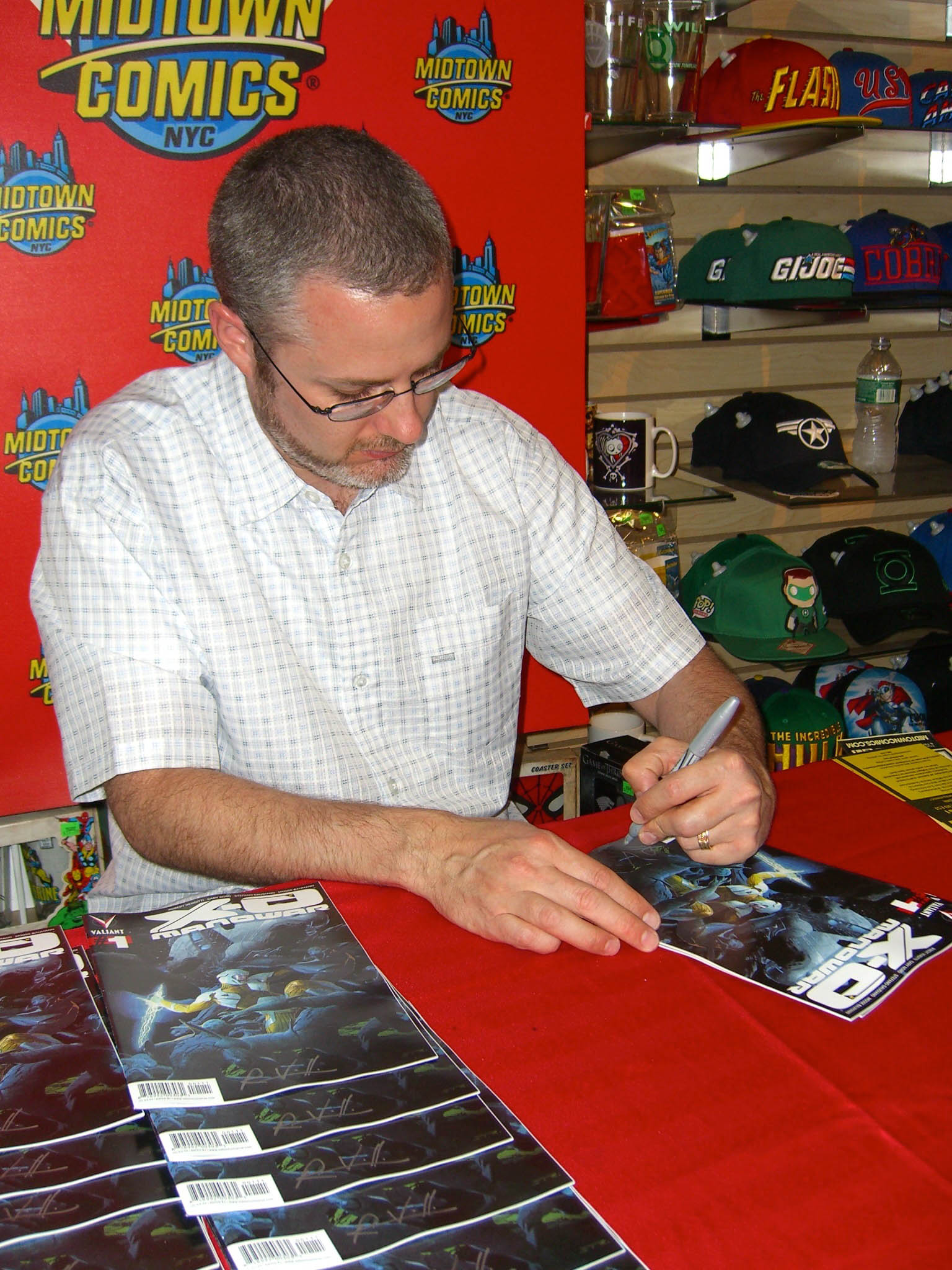 Comics writer Robert Venditti at a May 2, 2012 store signing for Valiant Comics' X-O Manowar Vol 3 #1 at Midtown Comics Downtown in Lower Manhattan. This photo was created by Luigi Novi. It is not in the public domain, and use of this file outside of the licensing terms is a copyright violation.